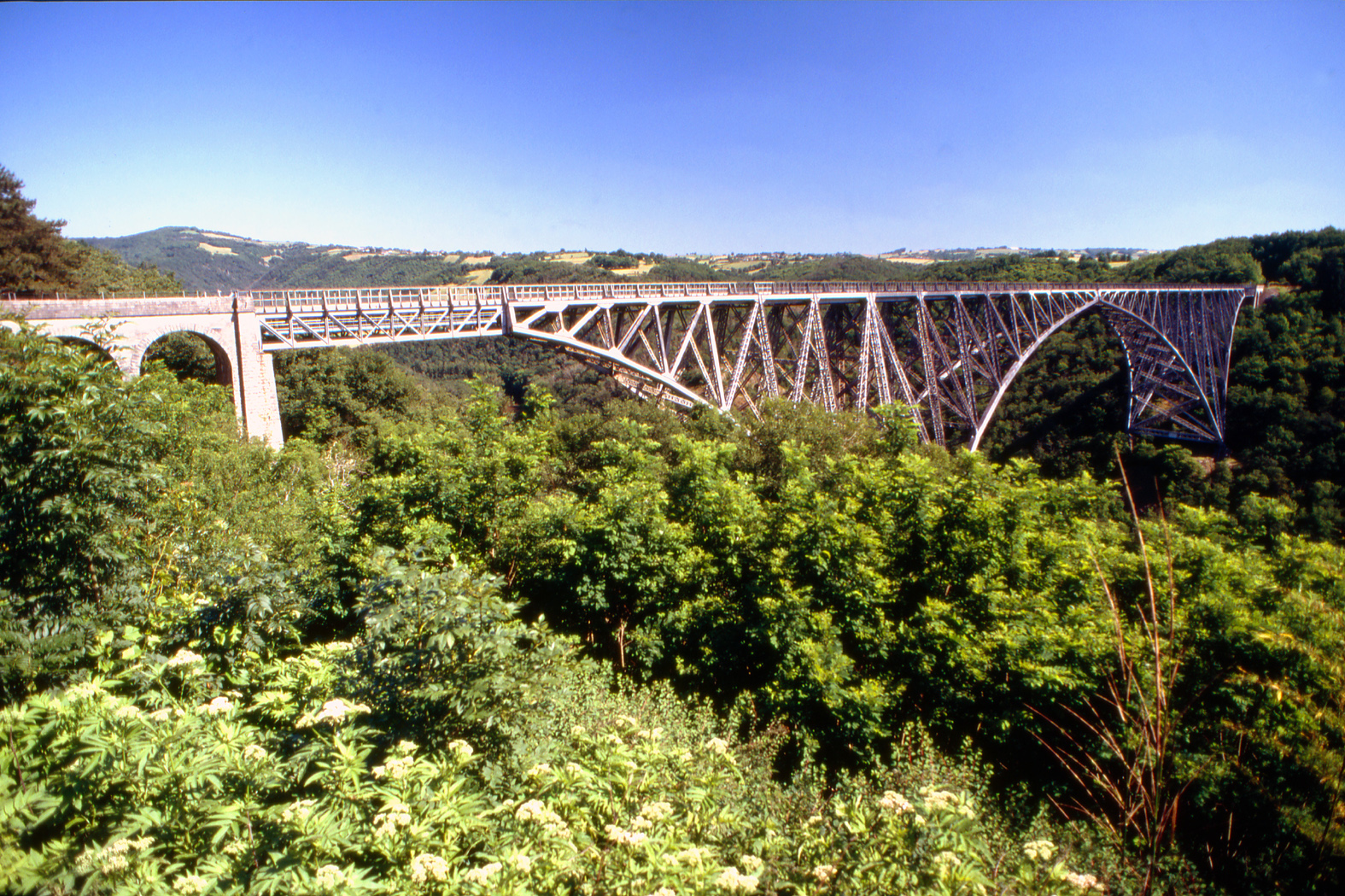 Viaur viaduct, view from the north-west, department Aveyron, France